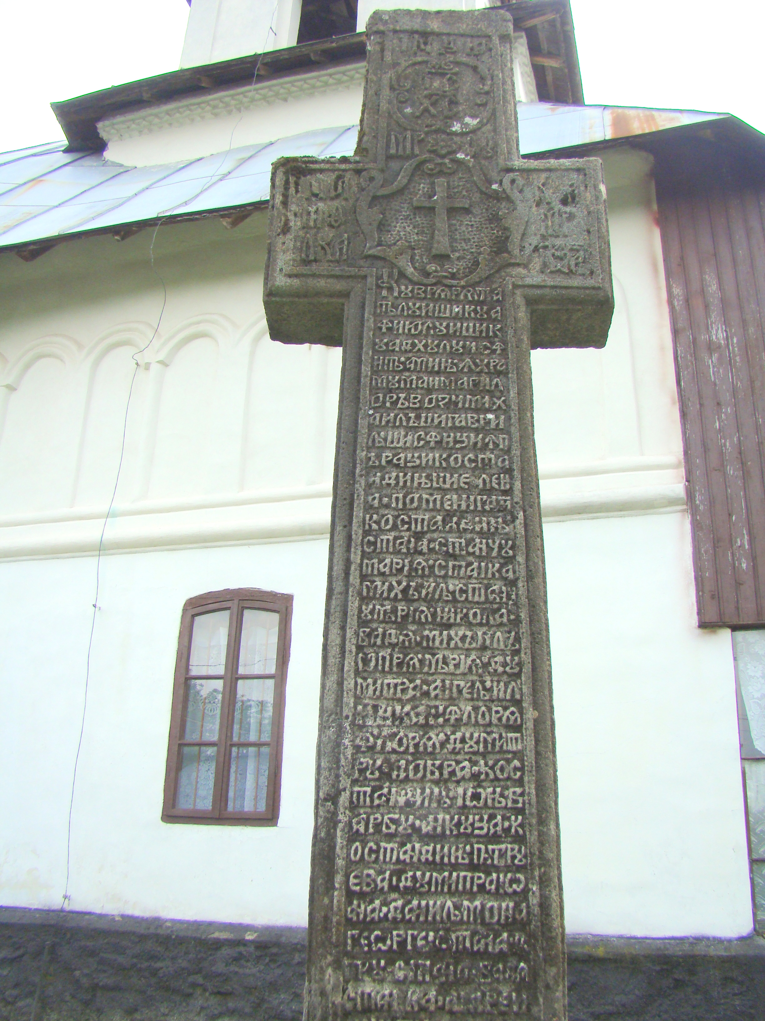 All Saints' church in Râmești, Vâlcea county, Romania